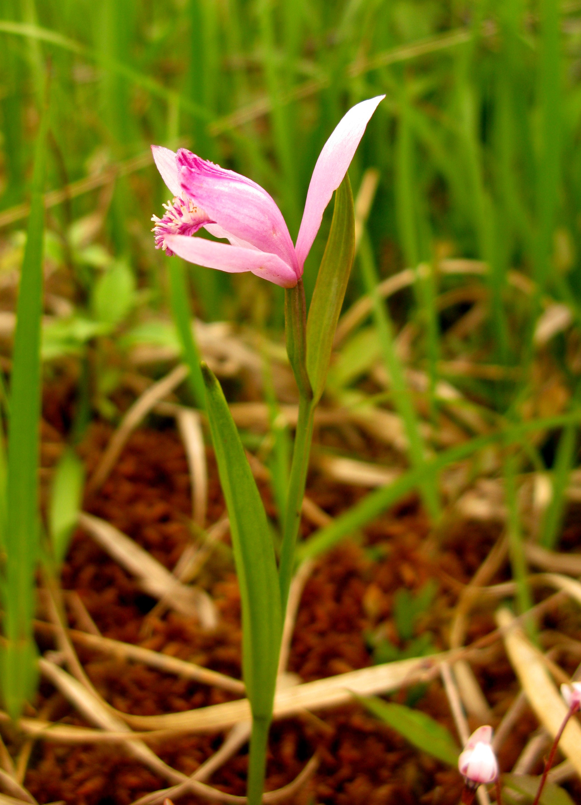 Pogonia japonica, Aizu area, Fukushima pref., Japan